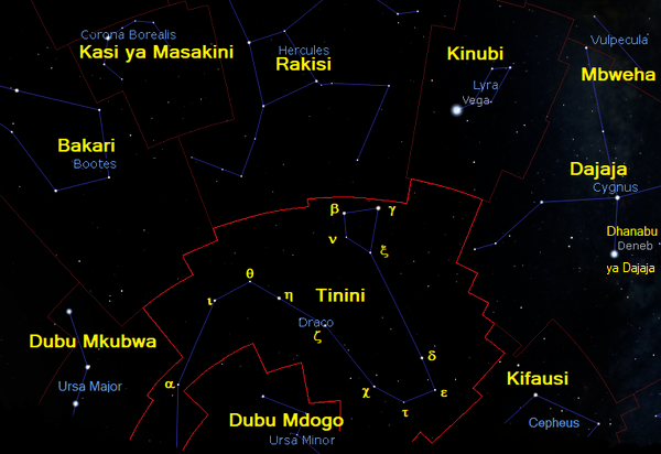 Draco constellation as seen from Tanzania, sw-en labeled Kiswahili: Kundinyota ya Tinini (Draco) jinsi inavyoonekana kutoka Dar es Salaam, majina kwa ing.-swa.